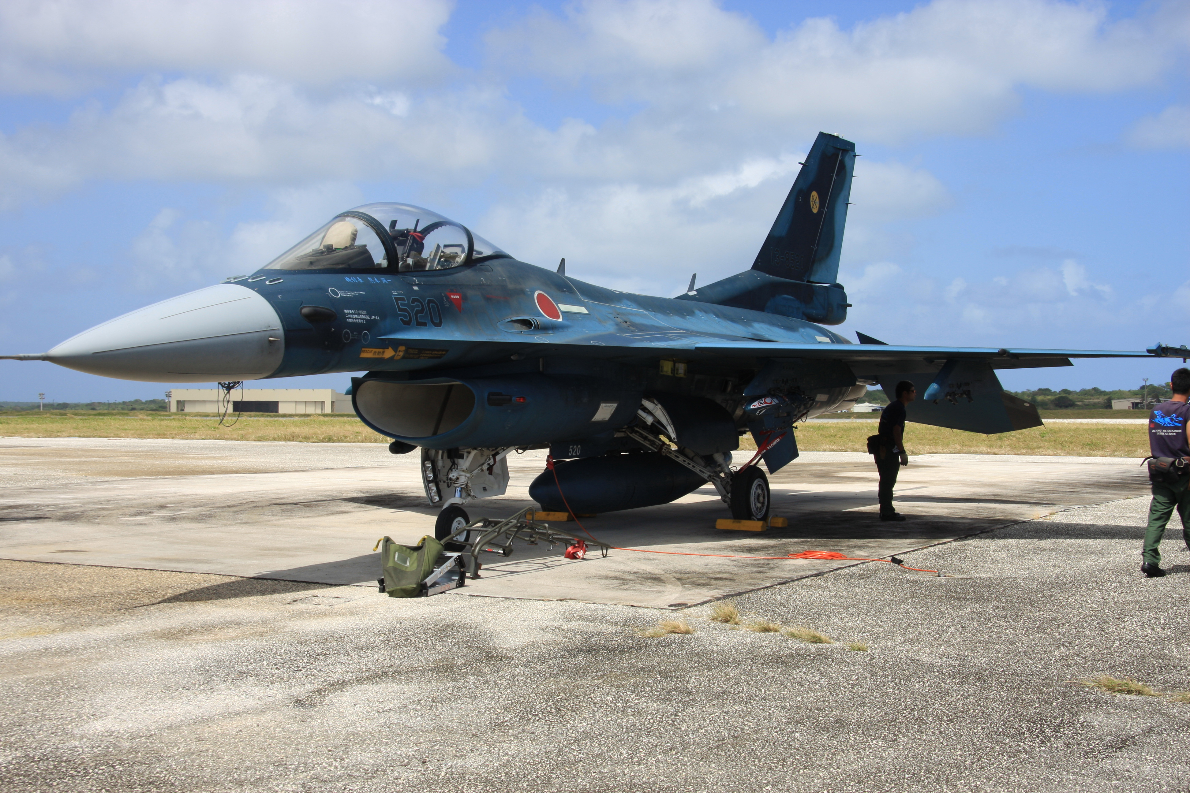 ANDERSEN AIR FORCE BASE, Guam - Japan Air Self-Defense Force maintainers examine an F-2A parked on the ramp here. The United States Air Force and JASDF conduct Cope North annually at Andersen Air Force Base to increase combat readiness and interoperability, concentrating on coordination and evaluation of air tactics, techniques and procedures. The ability for both nations to work together increases their preparedness to support real-world contingencies.(U.S. Air Force photo by Senior Master Sergeant Patrick LaChance) ↑ Aircraft arrive for Cope North 10-1 kickoff ↑ Cope North wraps up flying for February 15 Canon EOS 40D